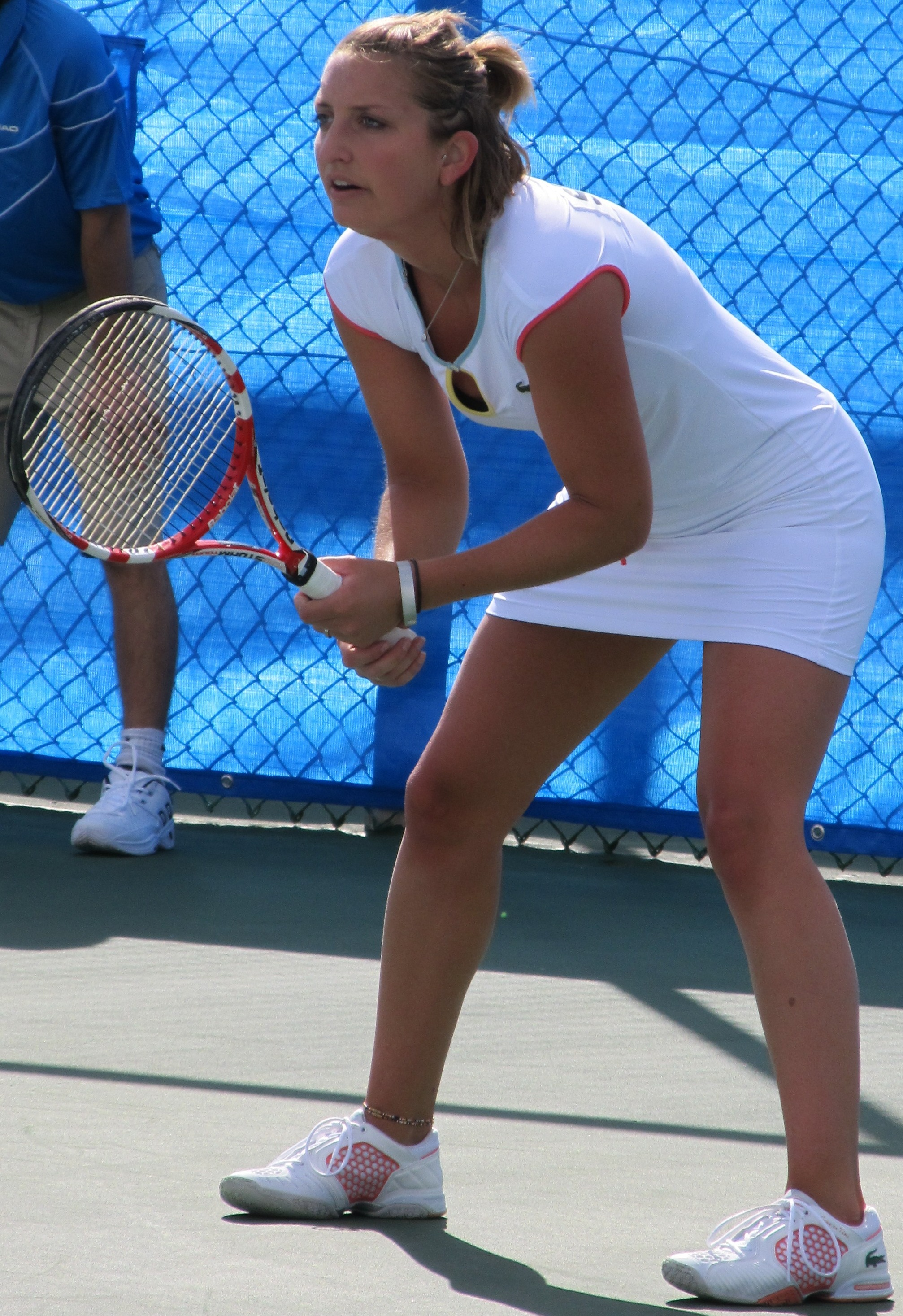 The tennis player Timea Bacsinszky of Switzerland during her match against Heather Watson of Great Britain in the 1st day of Fed Cup Group I 2011 Europe/ Africa in Eilat, Israel